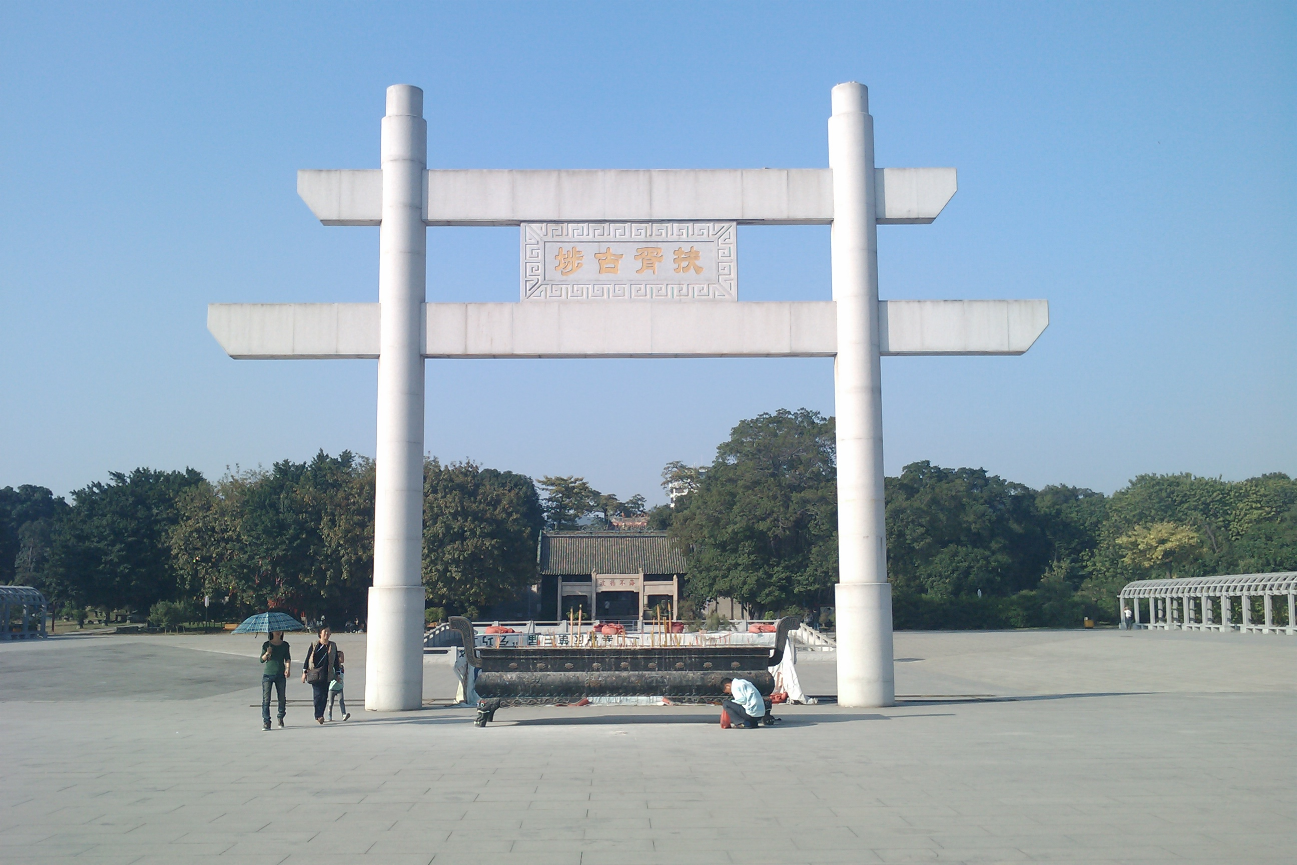 Nam Hoi(Nanhai) King Temple in Canton, China.